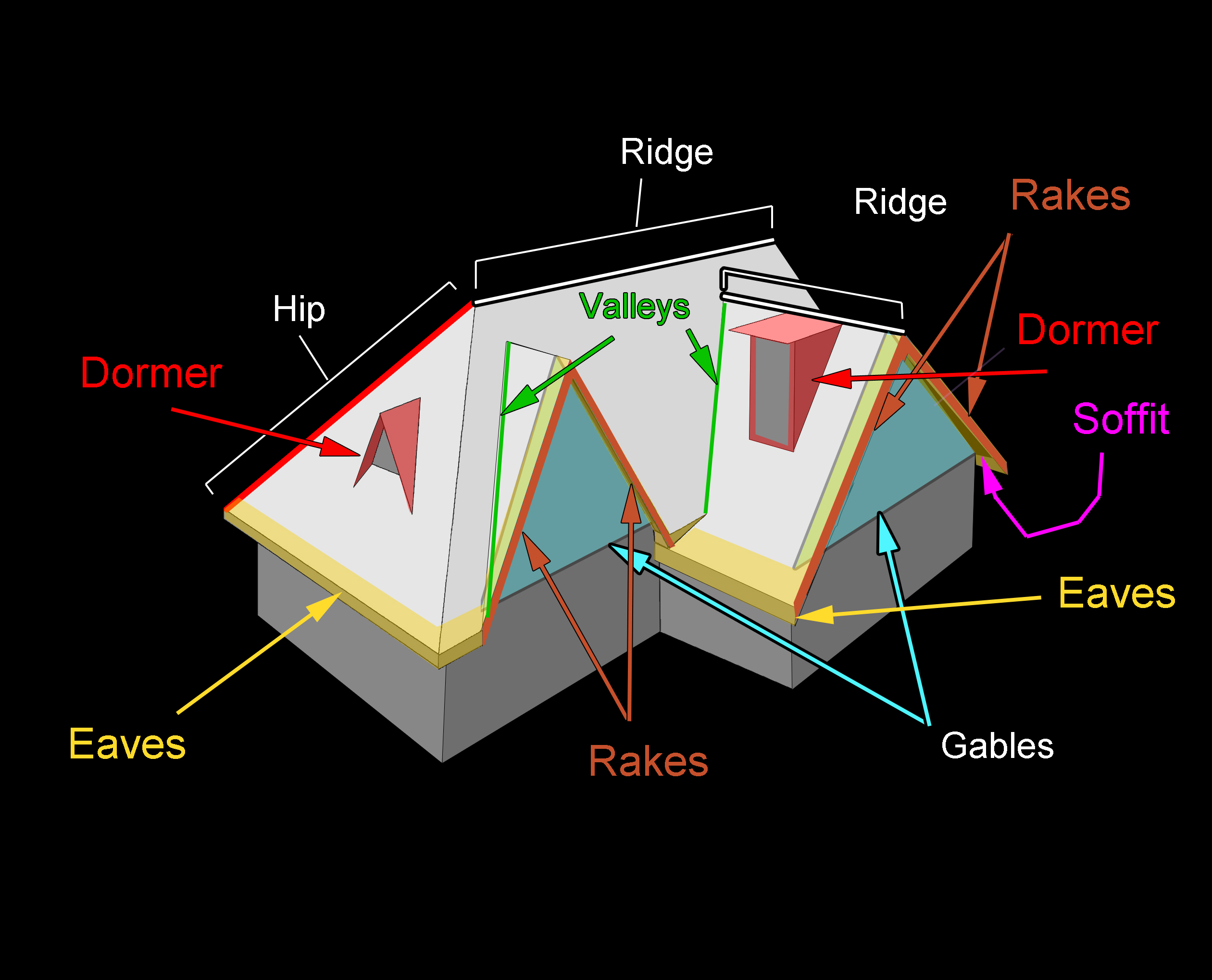 Diagram of the main architectural elements that make up a pitched roof.